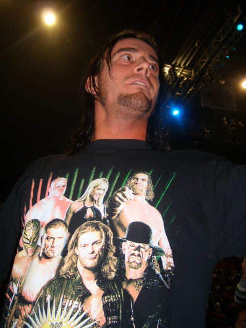 Brooks on tour SmackDown / ECW Road to Wrestlemania Tour 2008 at Coliseo General Rumiñahui the city of Quito, Ecuador on February 12 of that year.